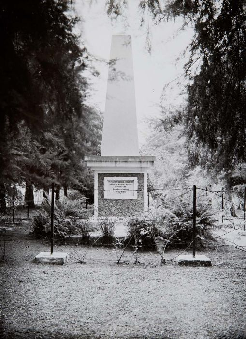 The grave of Franz Wilhelm Junghuhn